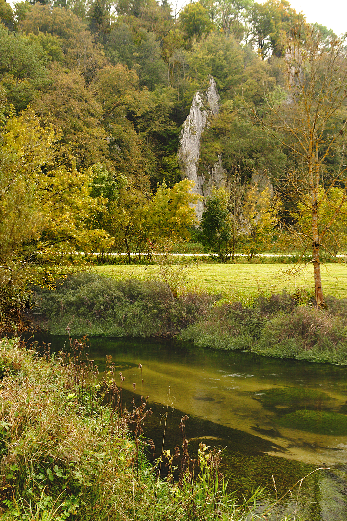 River Lauchert at "Hertenstein", Swabian Alb. In a leftturn the river crossed the eastern hanging wall of the Lauchert-Graben. Hard massive limestone on both sides of the river remained with a dip-slip of 20-50m.